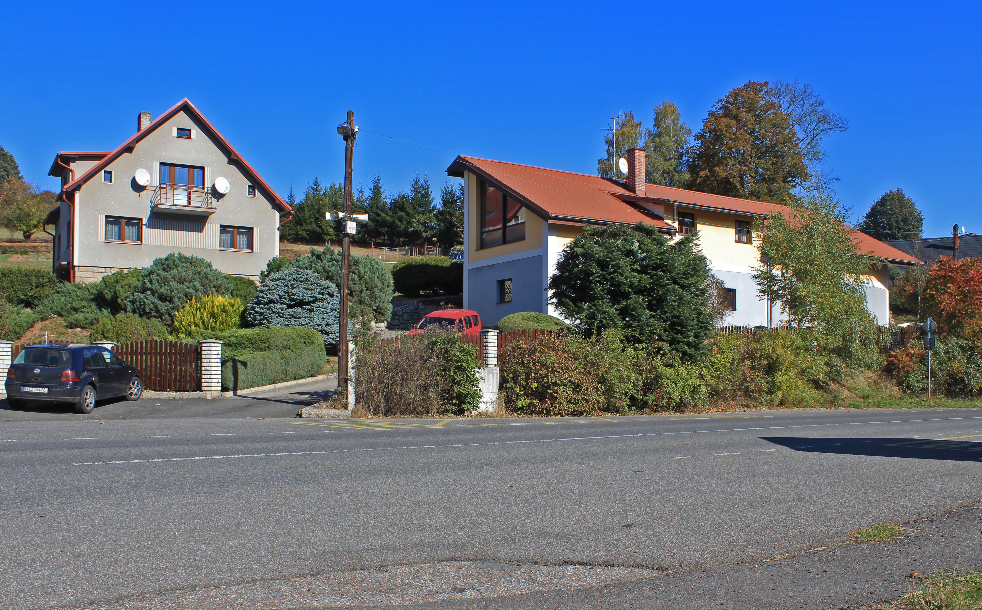 Middle part of Slaná, Czech Republic.